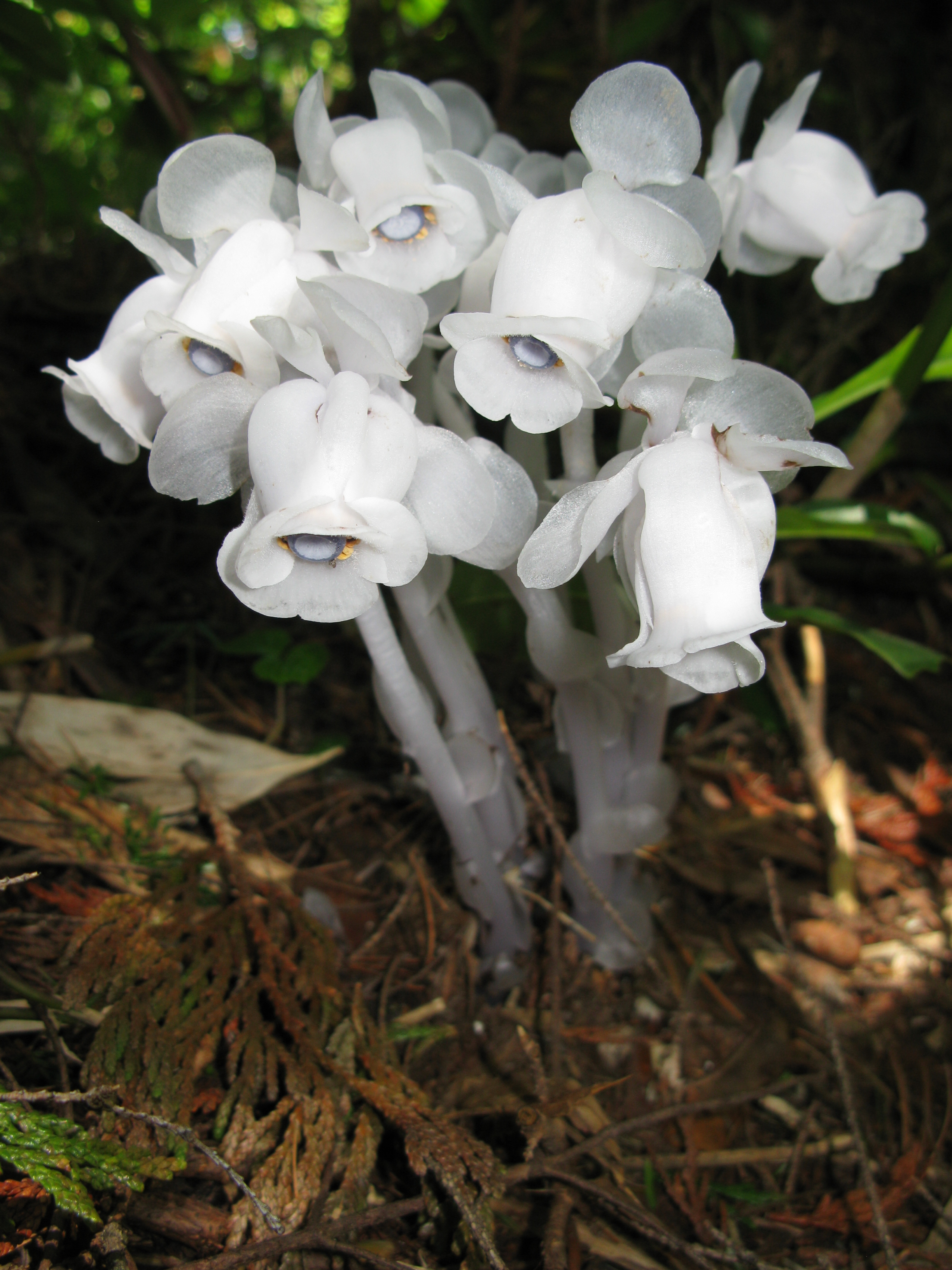 Monotropastrum humile, Aizu area, Fukushima pref., Japan